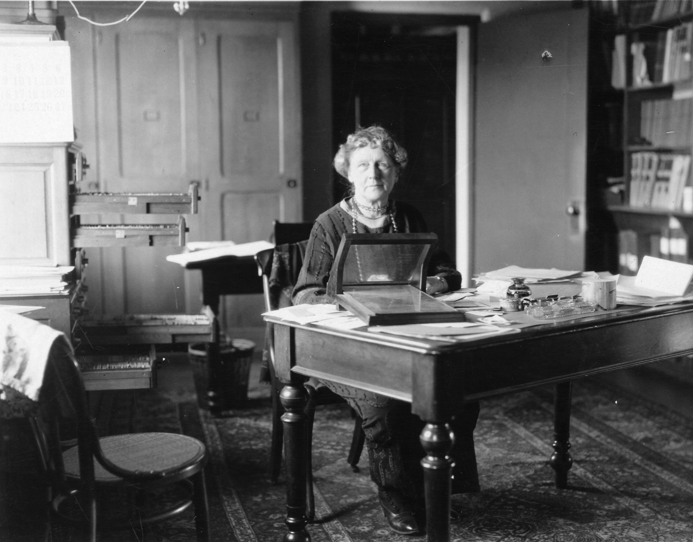 Description: First hired by Harvard College Observatory to carry out astronomical calculations, Annie Jump Cannon (1863-1941) eventually became one of the foremost American astronomers, known especially for her work on variable stars. This photograph shows her at her desk at the observatory. Creator/Photographer: Unidentified photographer Medium: Black and white photographic print Persistent URL: [1] Repository: Smithsonian Institution Archives Accession number: SIA2008-0647